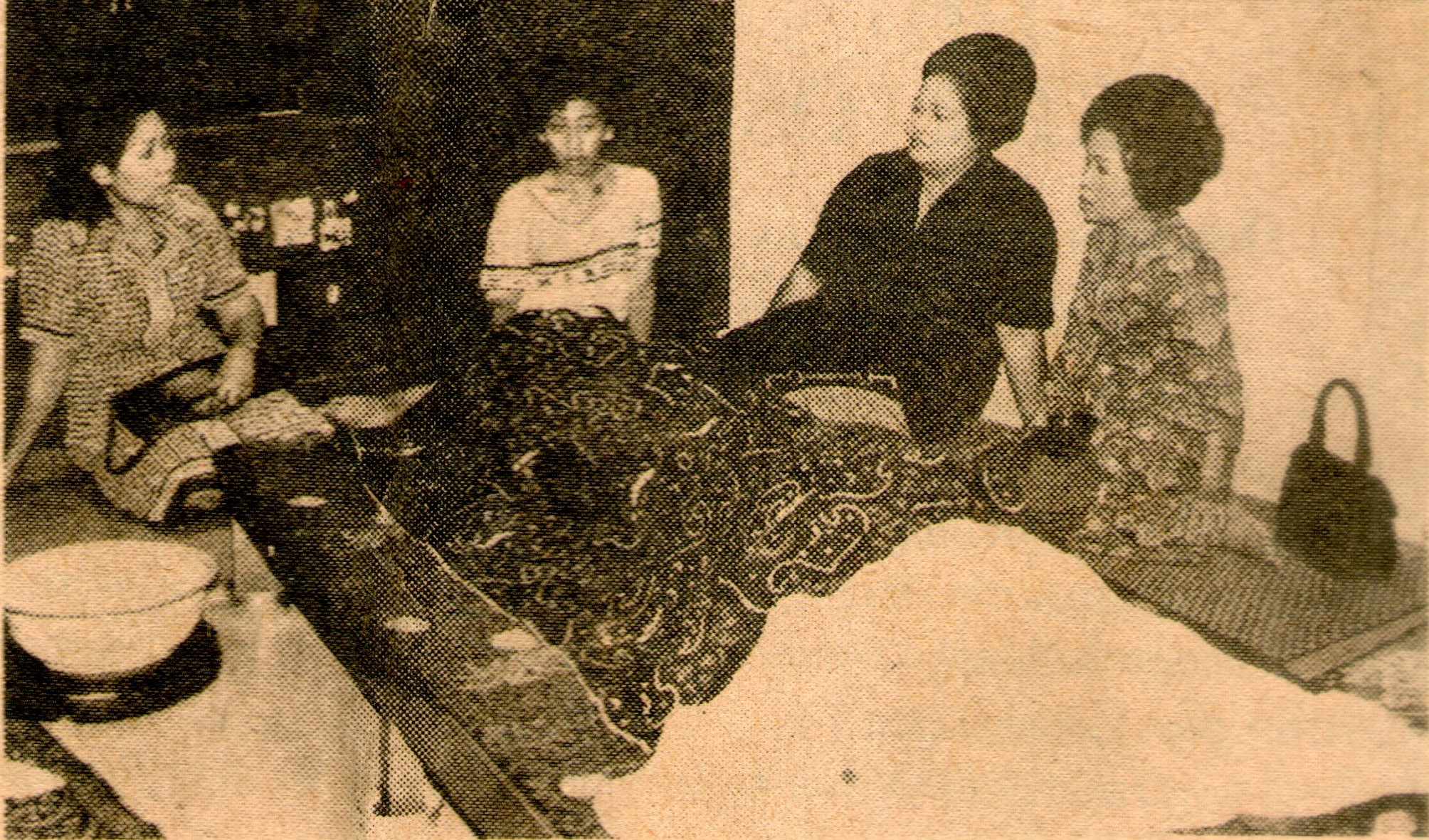 The body of Rahardjo Prodjopradoto is surrounded by Ms. Amir Murtono and Ms. Moerdopo.